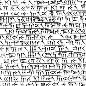 Detail of old Persian writing copied from the Behistun Inscription.